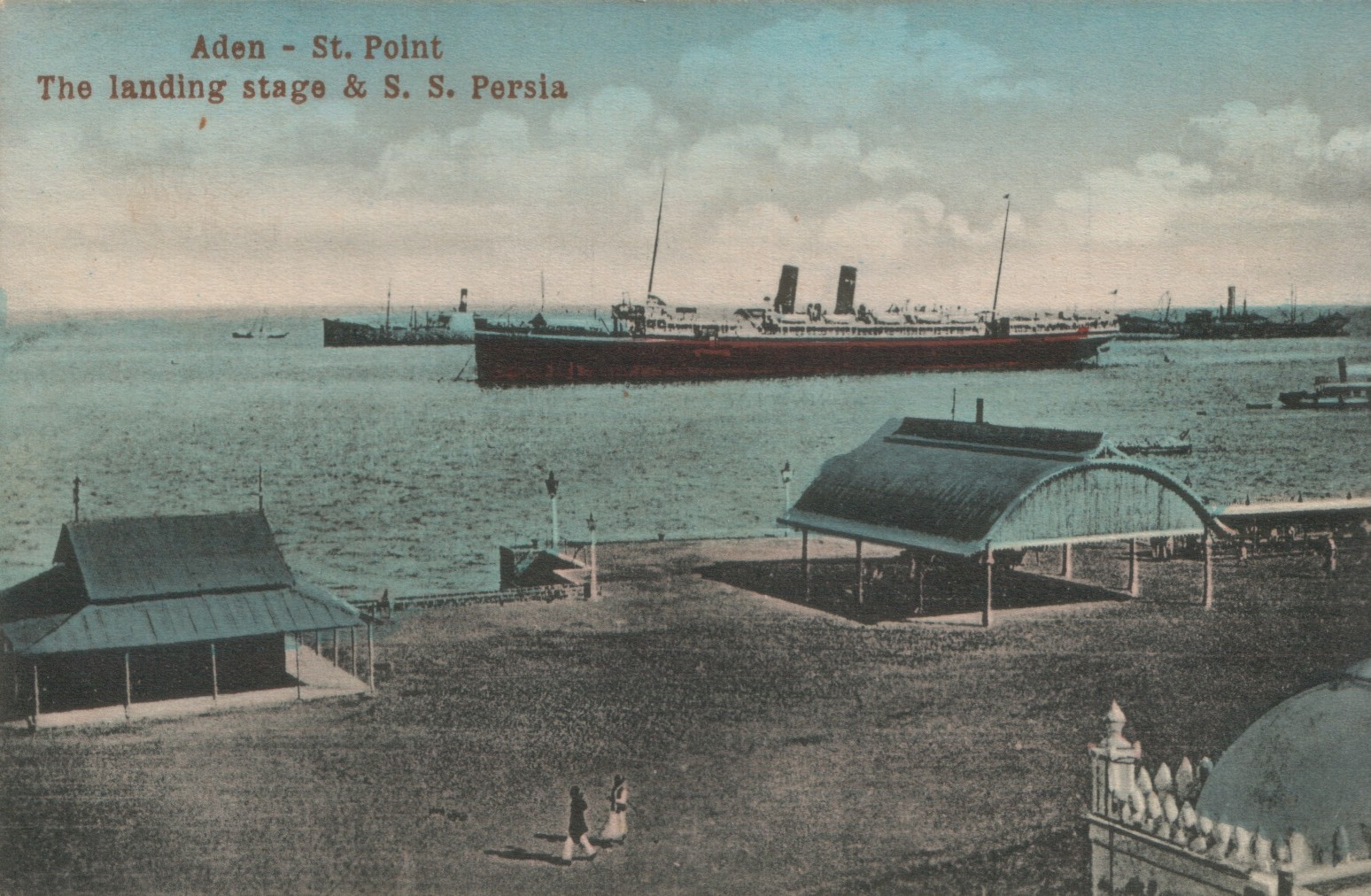 Harbour of Aden in Yemen.